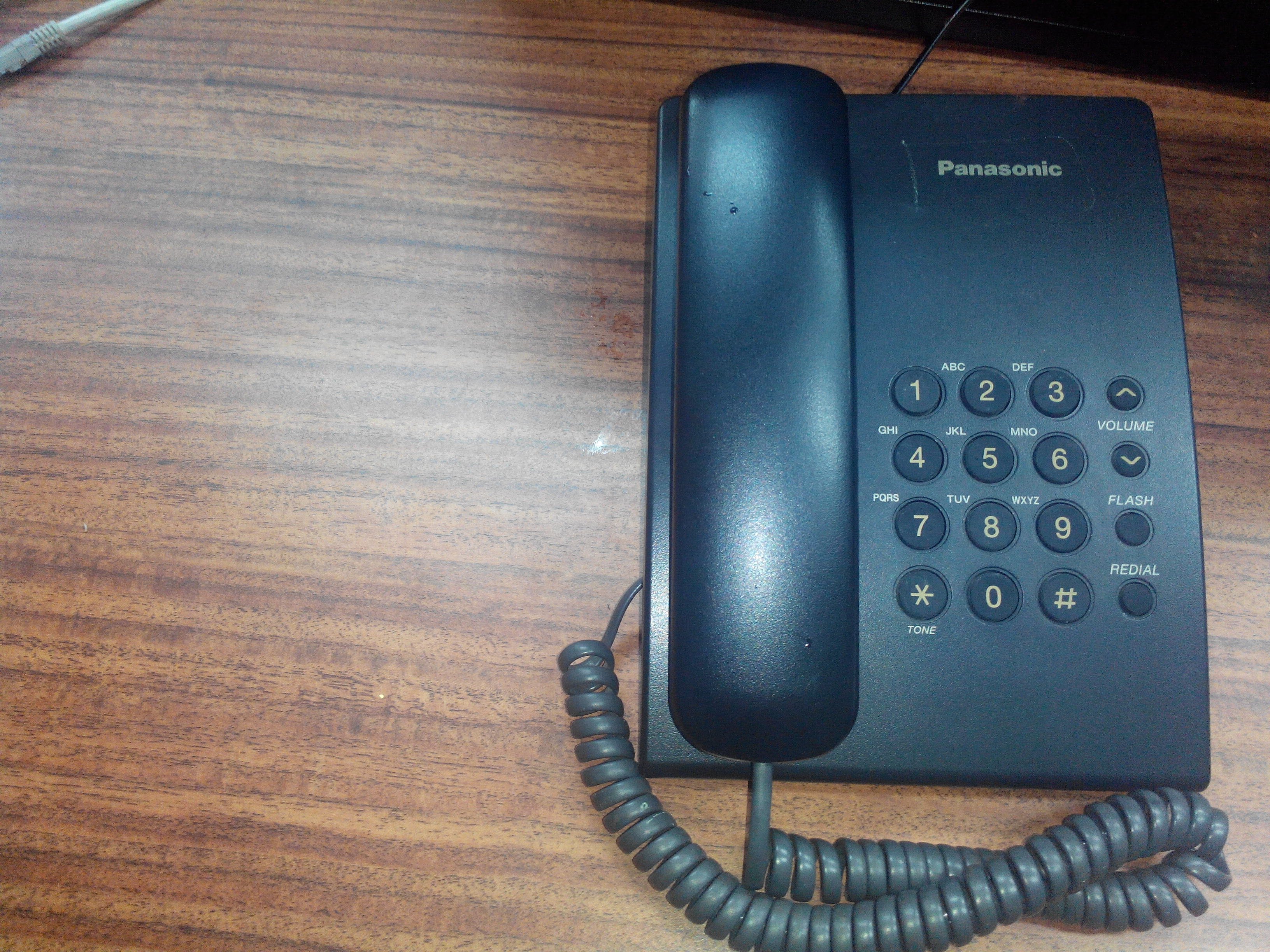 intercom panasonic model no KX-TS500MX